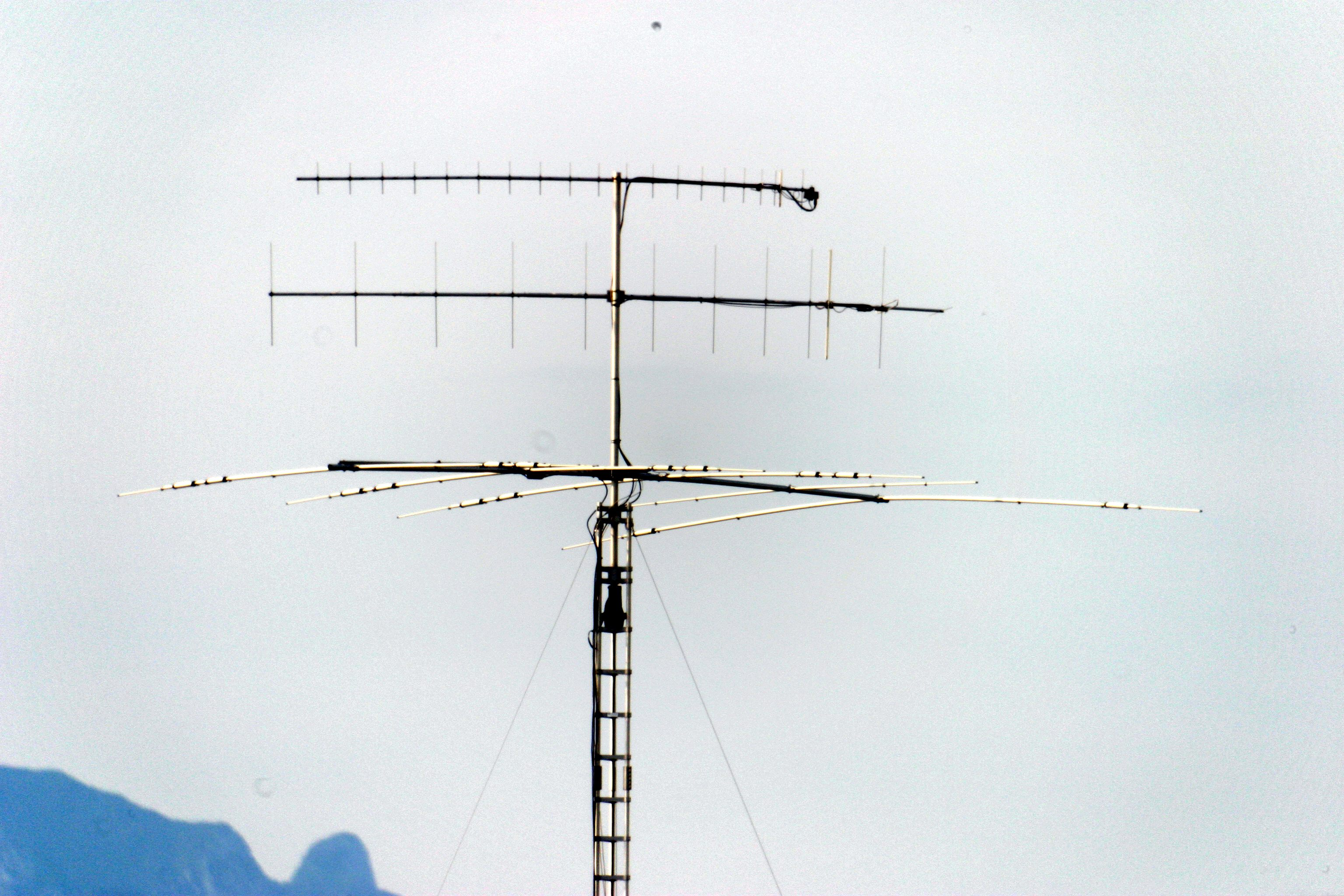 A typical amateur radio antenna combination: for the UHF-band (top), VHF-band (middle) and some HF-bands (below).